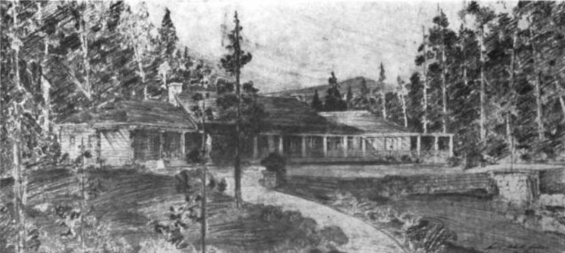 Rustic log-cabin building designed for traveler refreshment along 17-Mile Drive in Pebble Beach, Del Monte Forest, Monterey County, California. Architect Lewis P. Hobart. Completed in 1909, destroyed by fire in 1917.